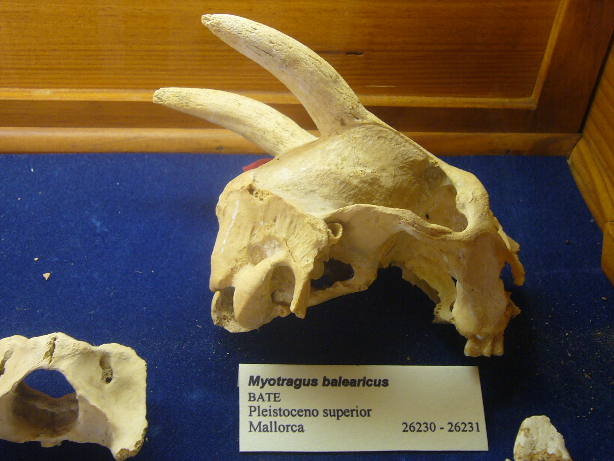 Fossils. Collection of paleontology of the Geological Museum of the Barcelona Seminari (Museu Geològic del Seminari de Barcelona).